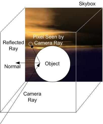 A diagram depicting how cube mapped reflection works.